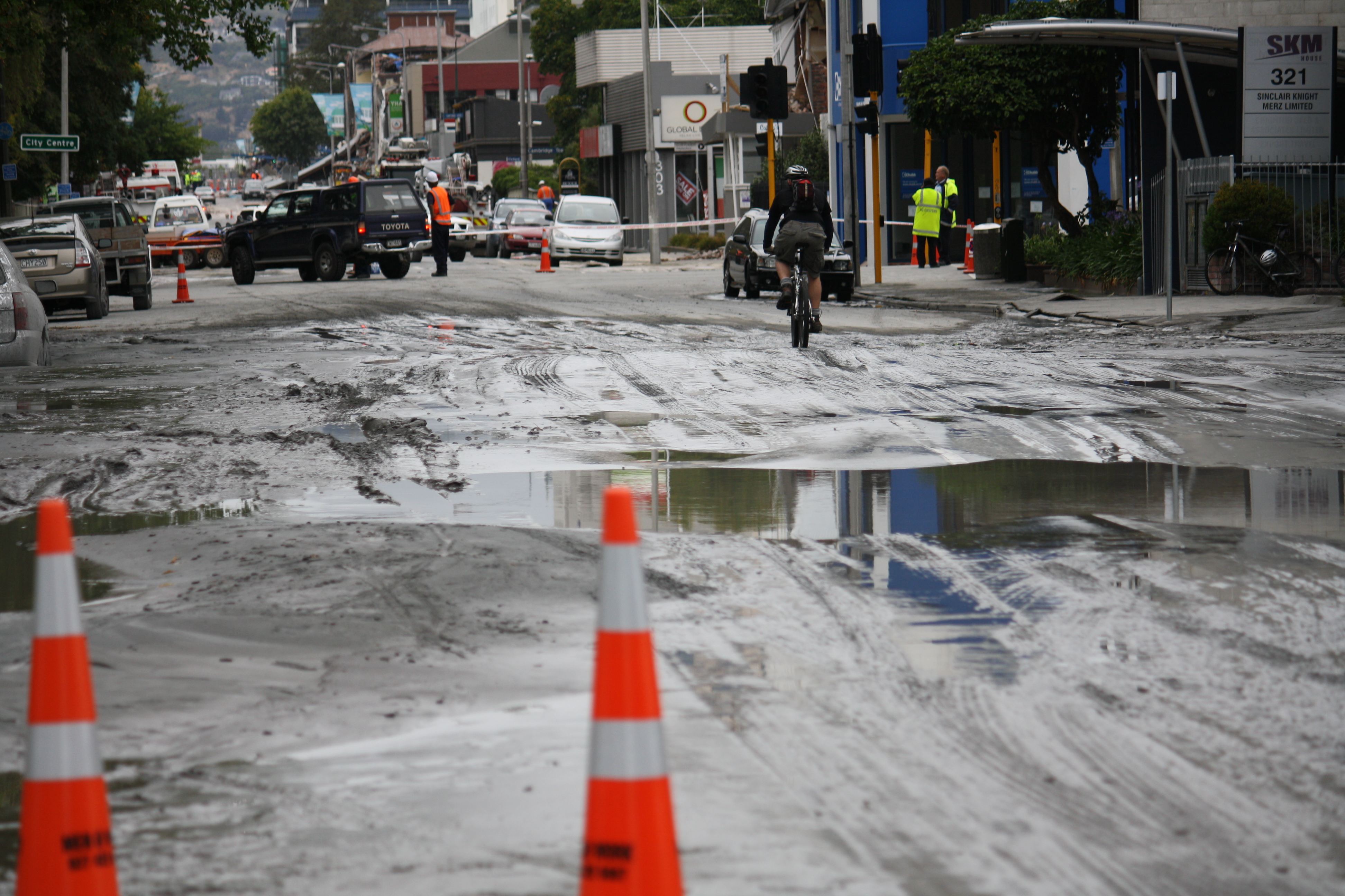 Manchester Street in the evening of the 2011 Christchurch earthquake.